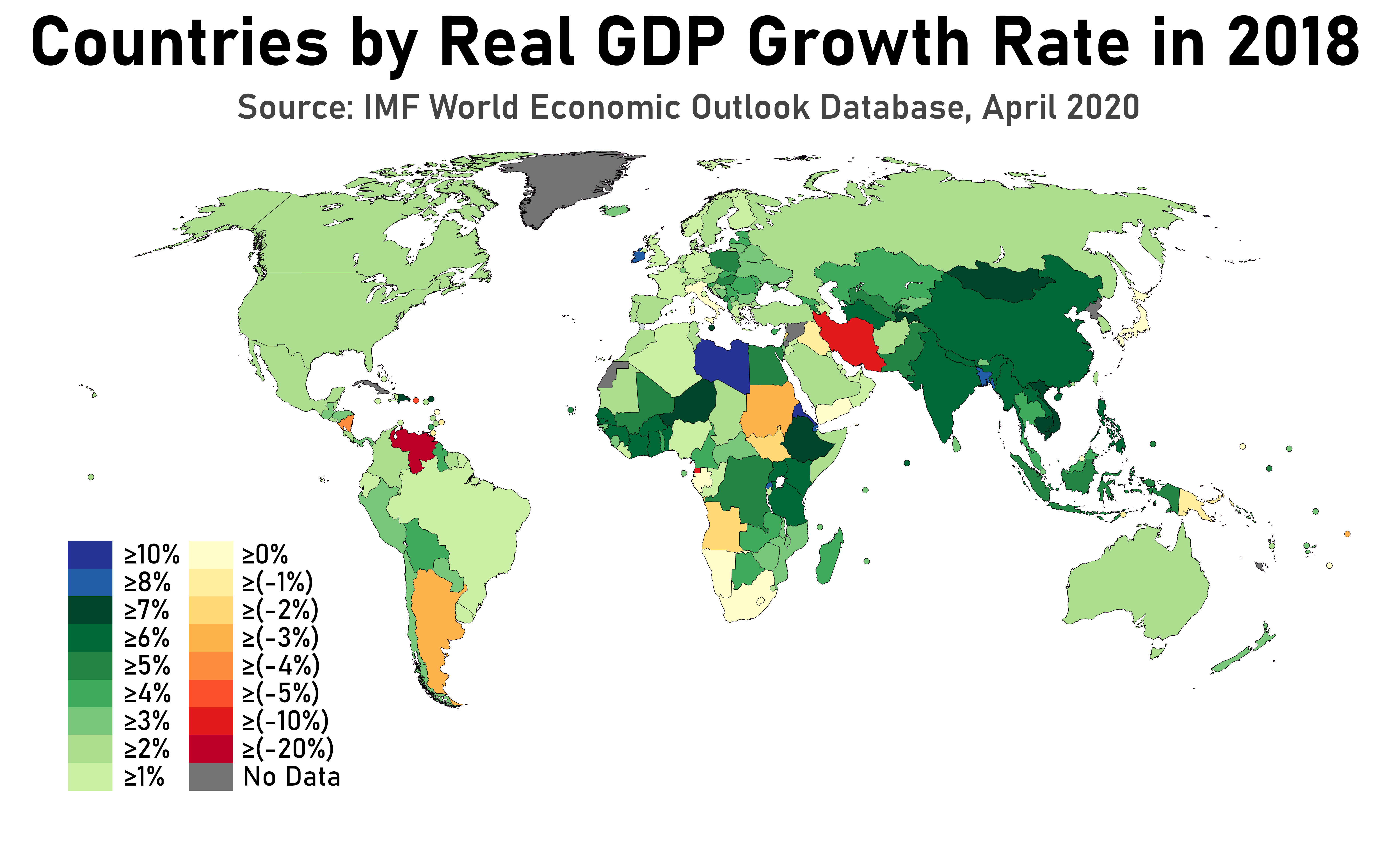 This is a map showing the IMF's estimates for Real GDP Growth rate in the year 2018. The data is from the IMF's April 2020 World Economic Outlook Database. The map itself was made in , then was edited in Gimp.